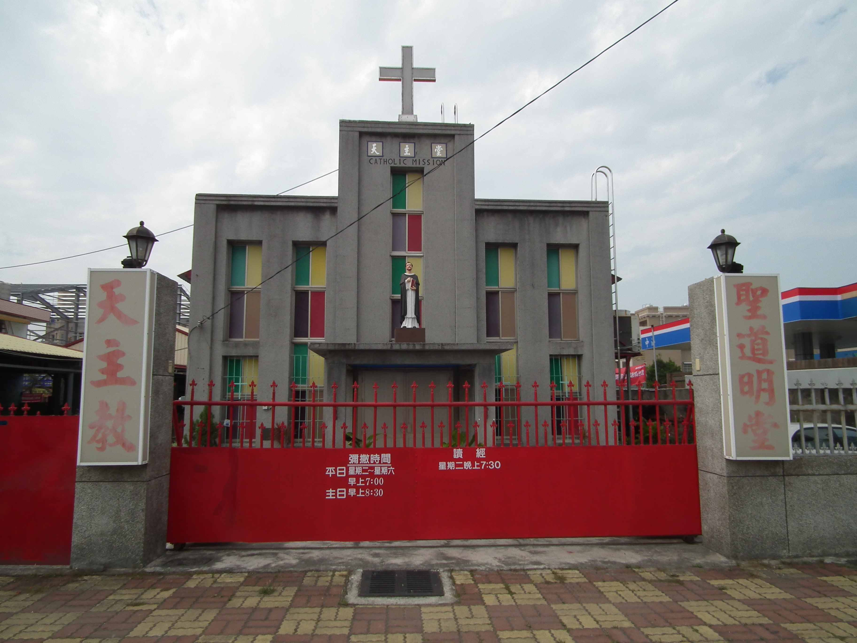 Saint Dominic`s Church 聖道明堂